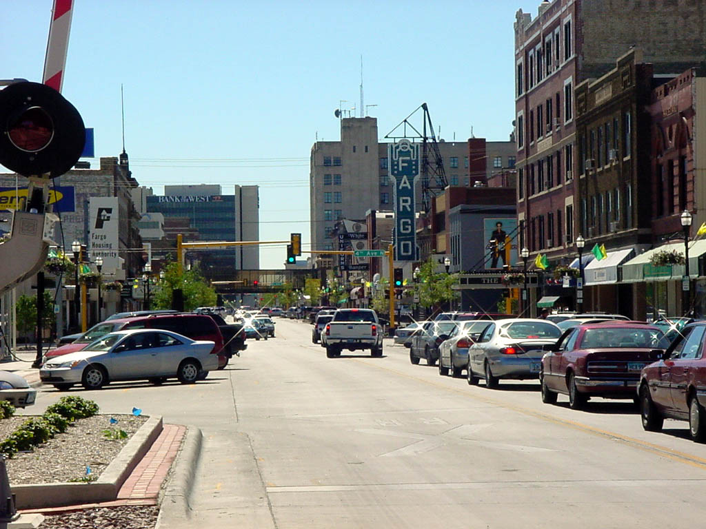 Broadway in the center of downtown Fargo, North Dakota